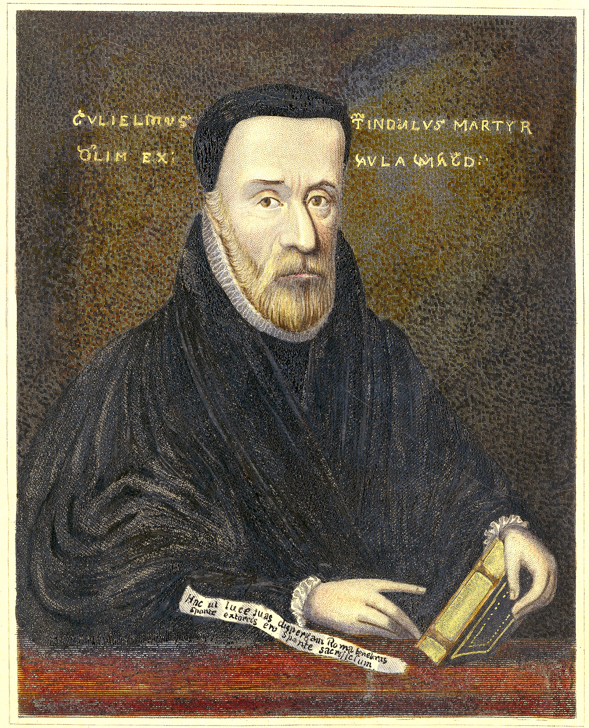 A portrait of William Tyndale (c.1494-1536) who translated the Bible from the original Hebrew and Greek into English.